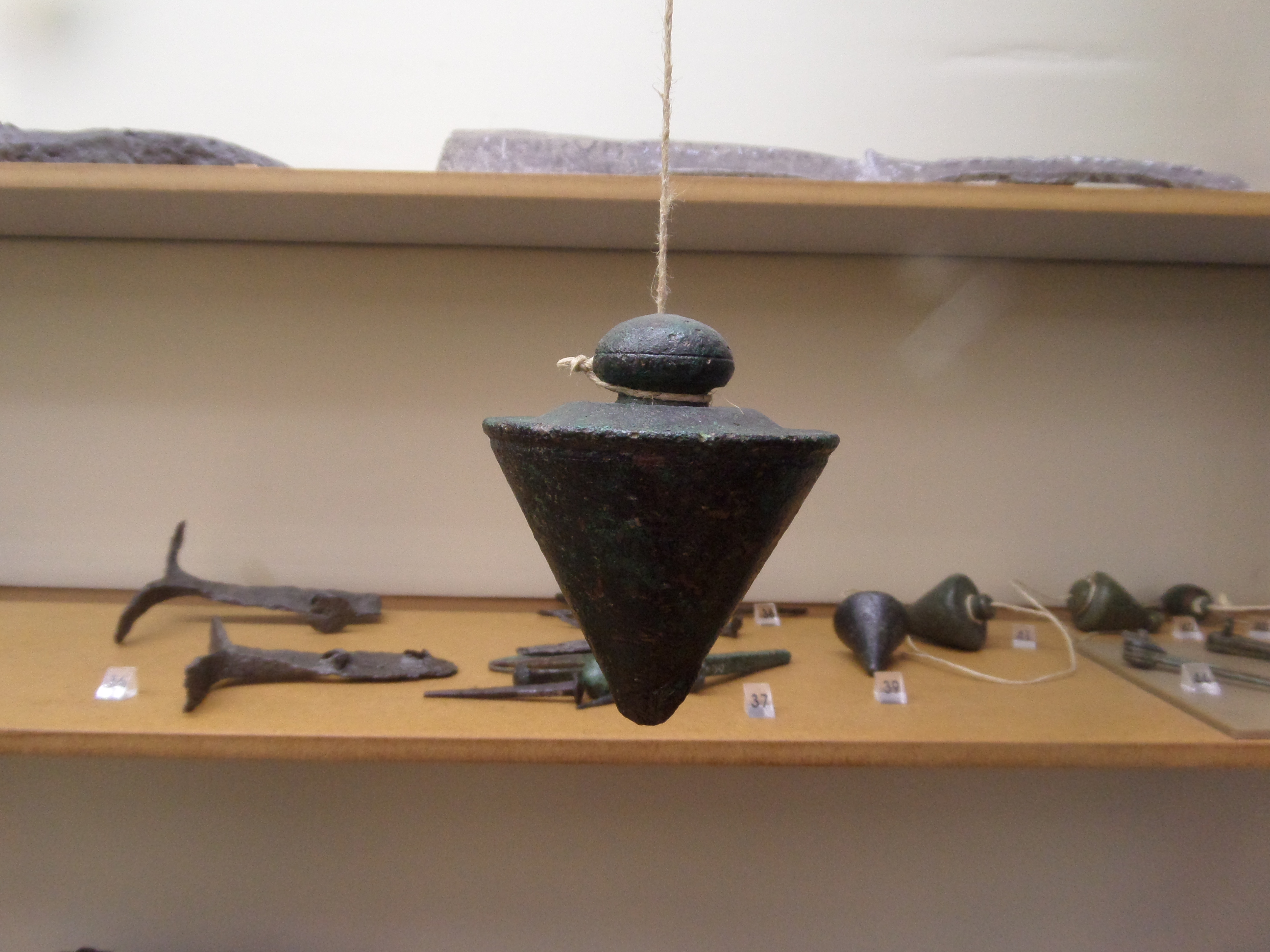 Roman plumb bob. In the Archaeological Museum, Split, Croatia. Bronze.